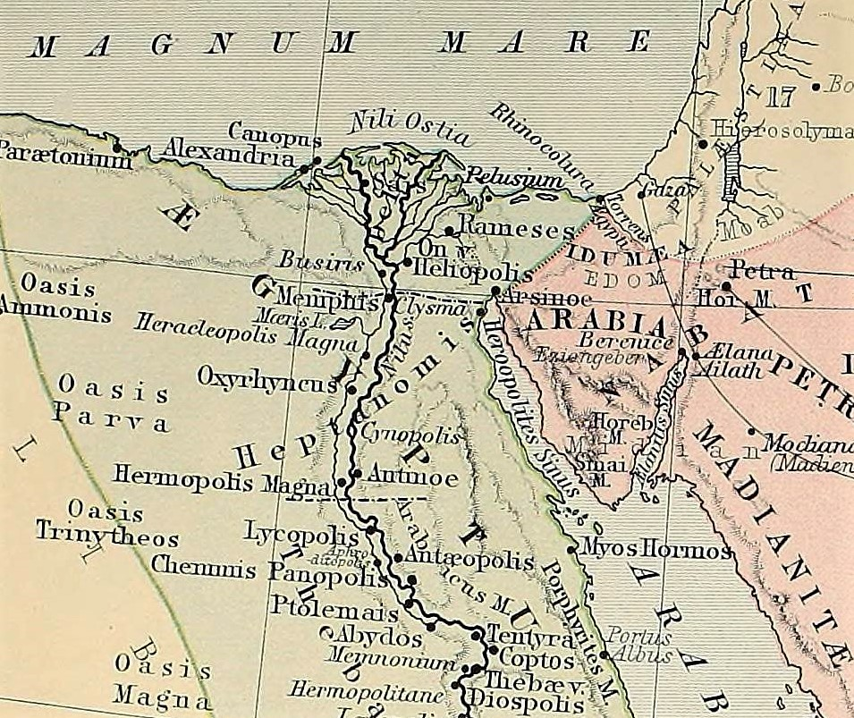 Part of a map of Ancient Egypt, centred on the Lower Nile